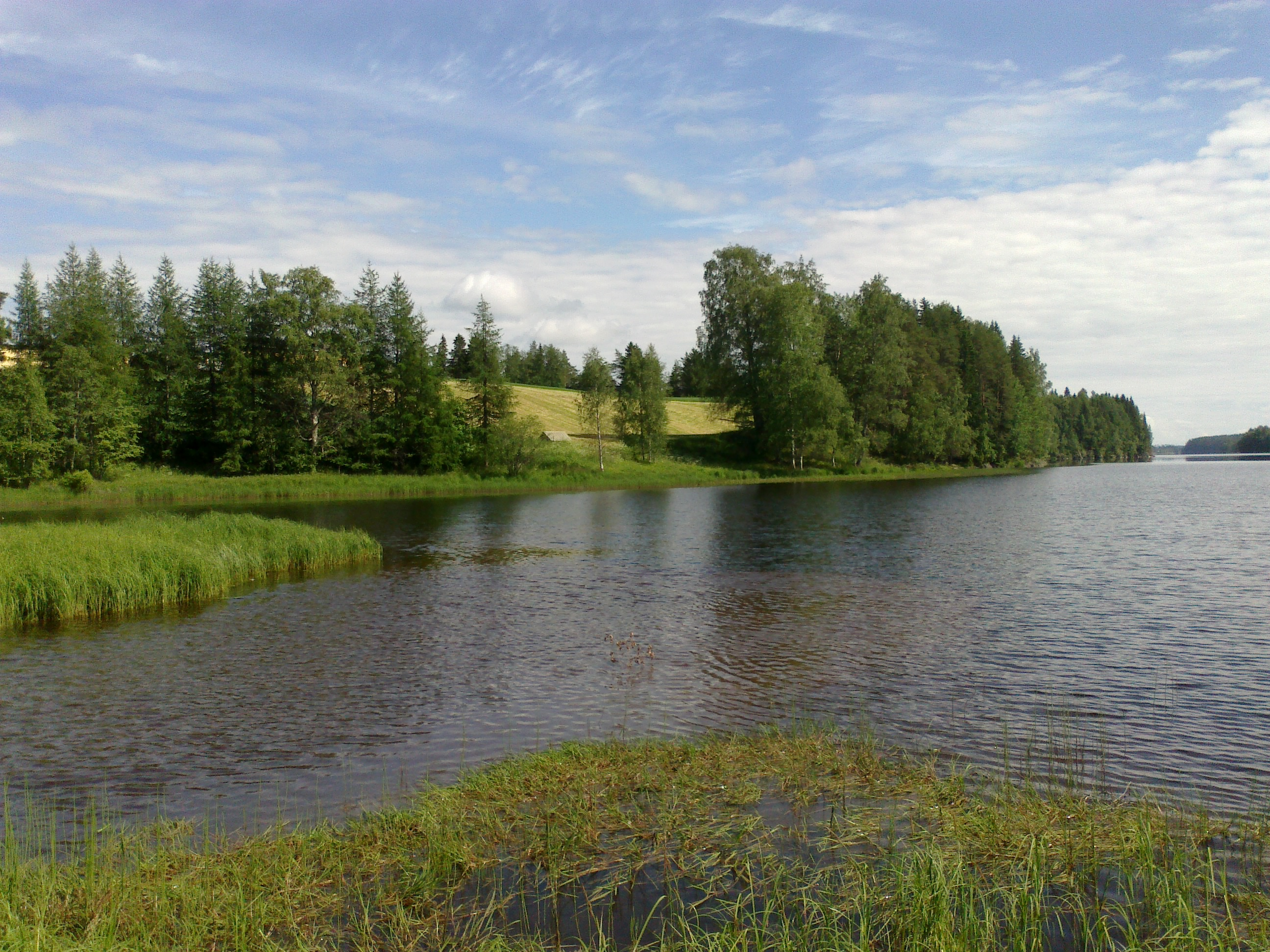 The sound is a part of the Lake Maaninkajärvi.